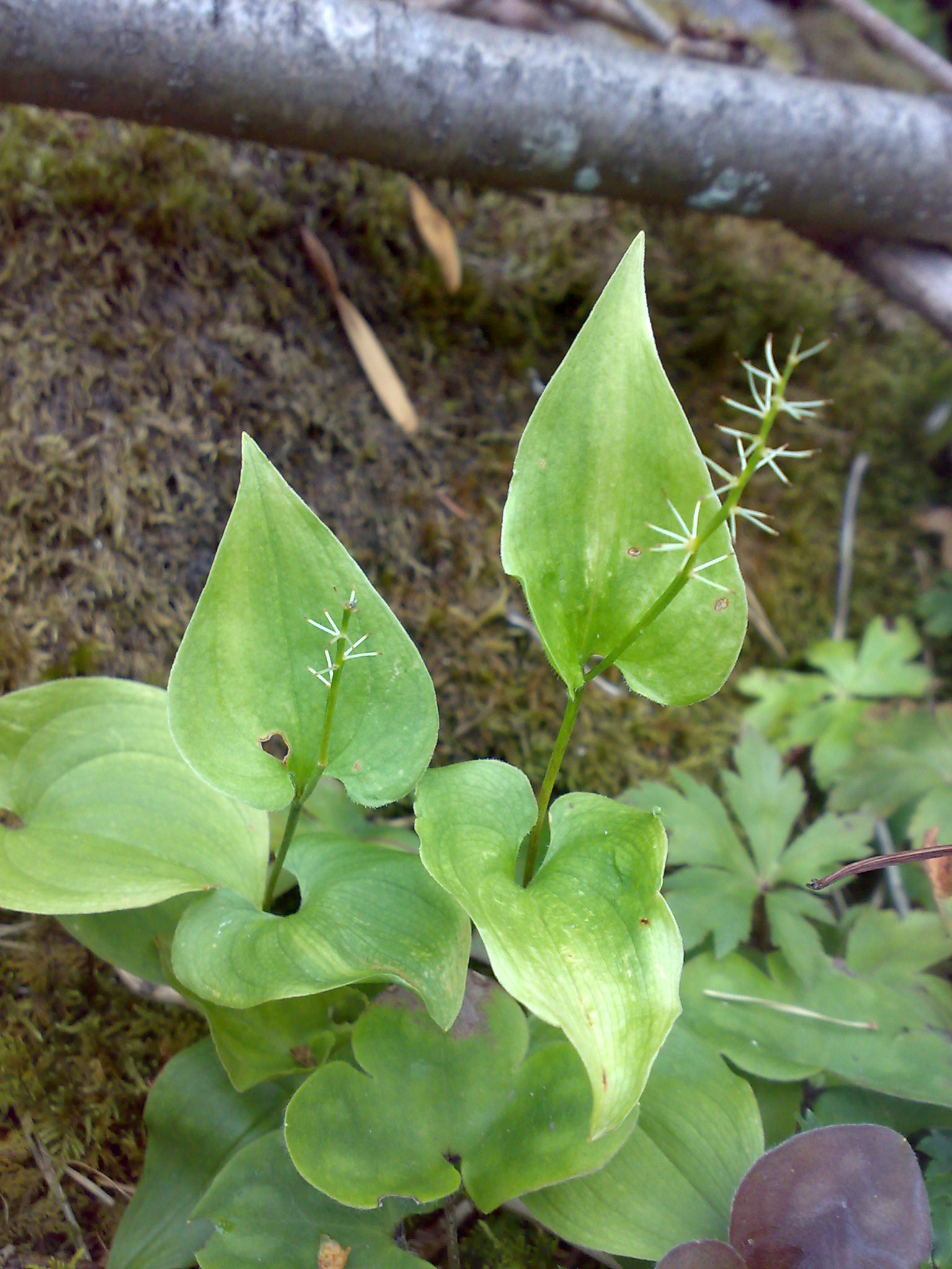 Maianthemum bifolium in Hurum, Norway